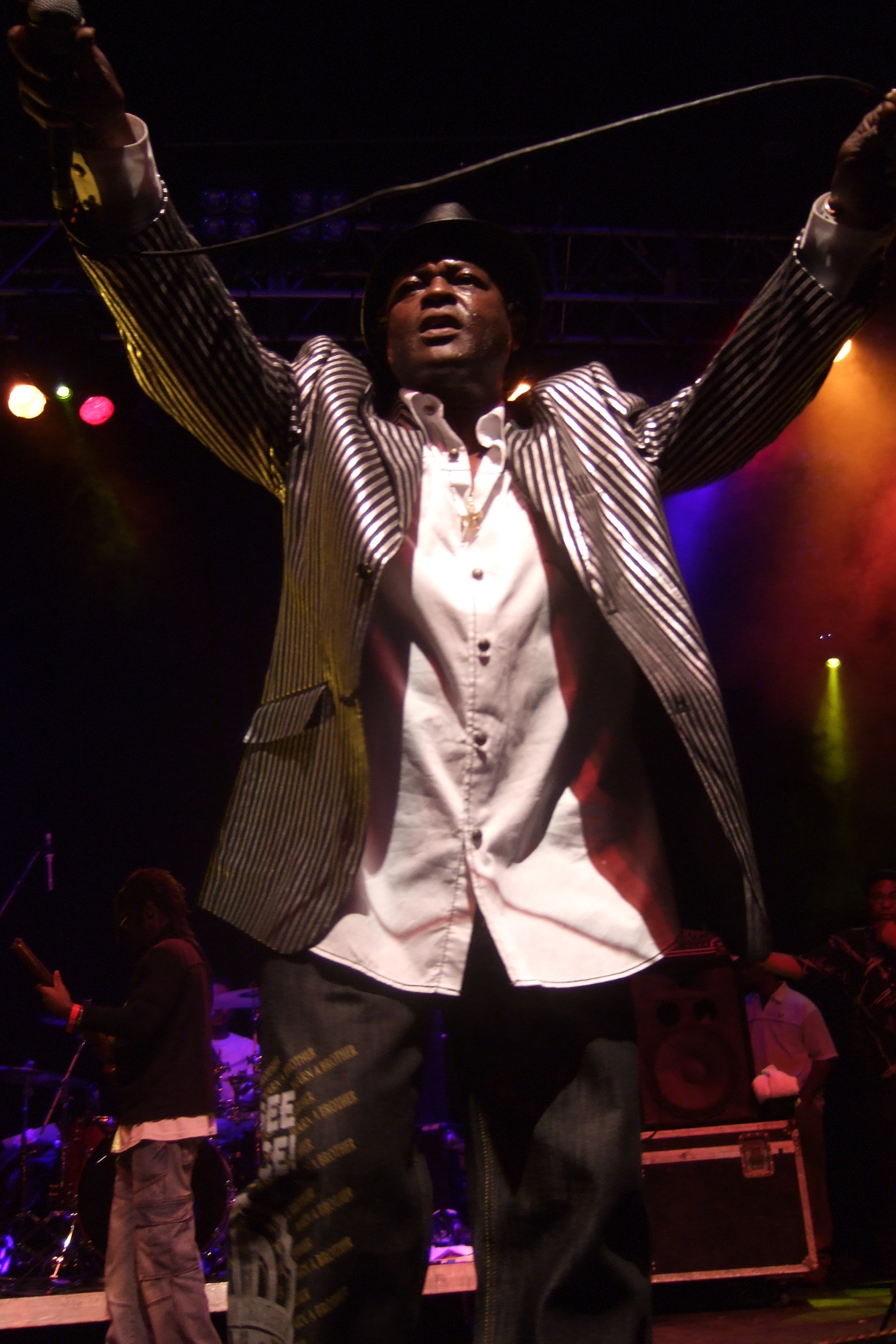 Coronet Theatre London - 21/11/09 - Sugar Minott celebrating 35 years in reggae music